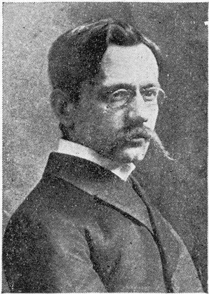 Dr Alexander Pilcz